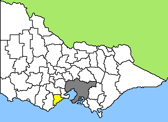 Map of Victoria/Australia, LGA of Surf Coast Shire highlighted